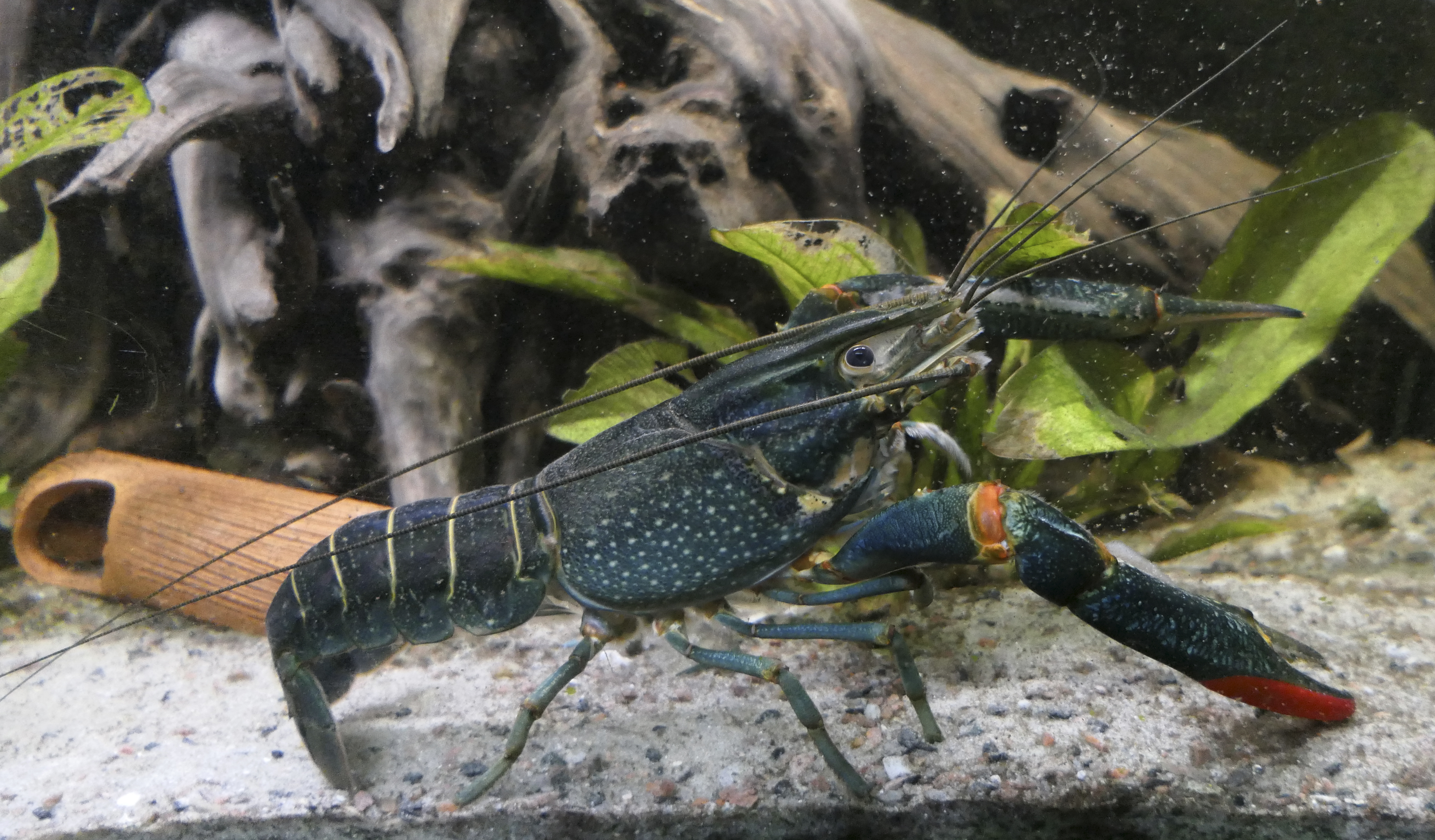 Red Claw